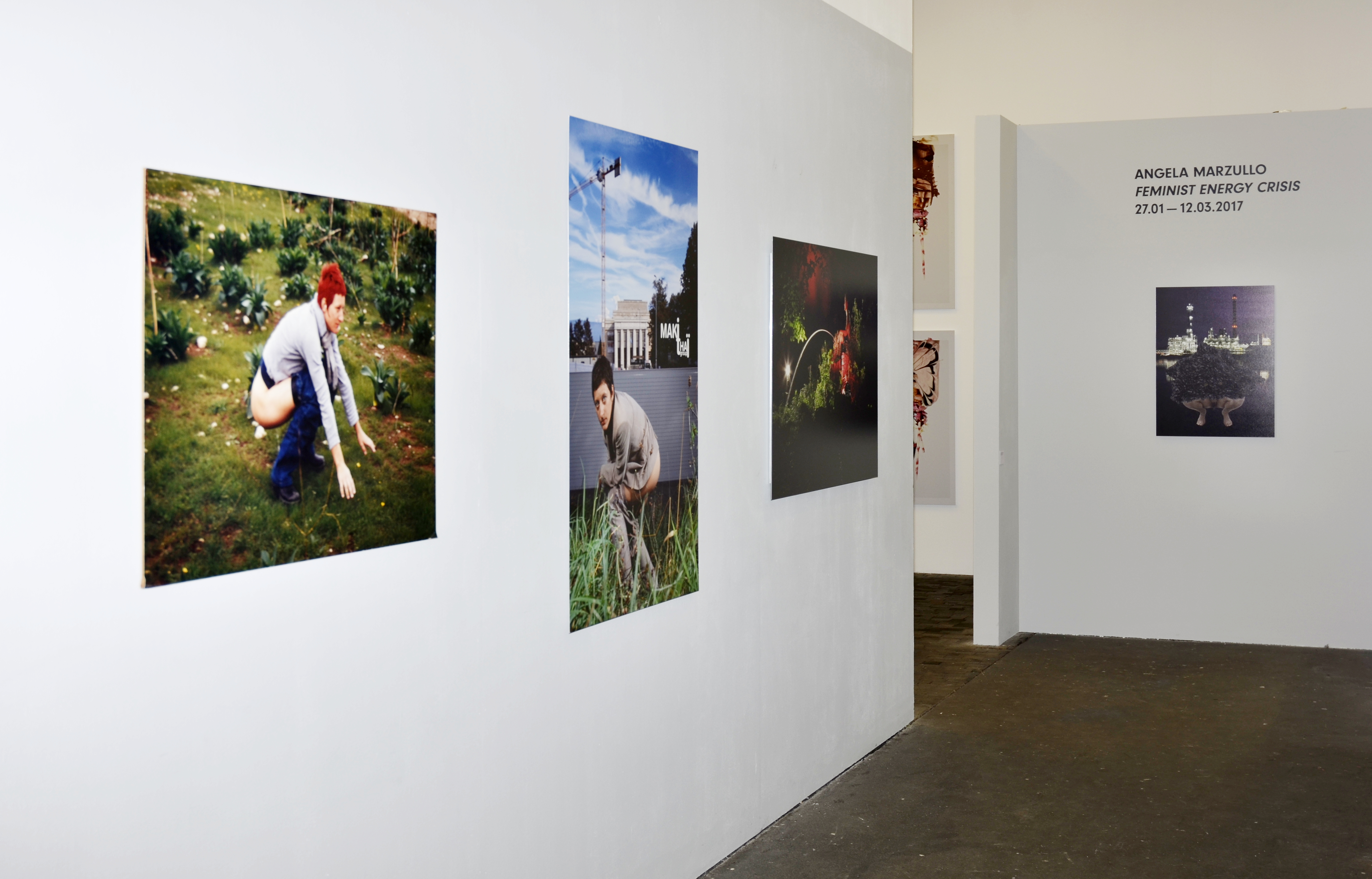 Exhibition by Angela Marzullo "Feminist Energy Crisis".